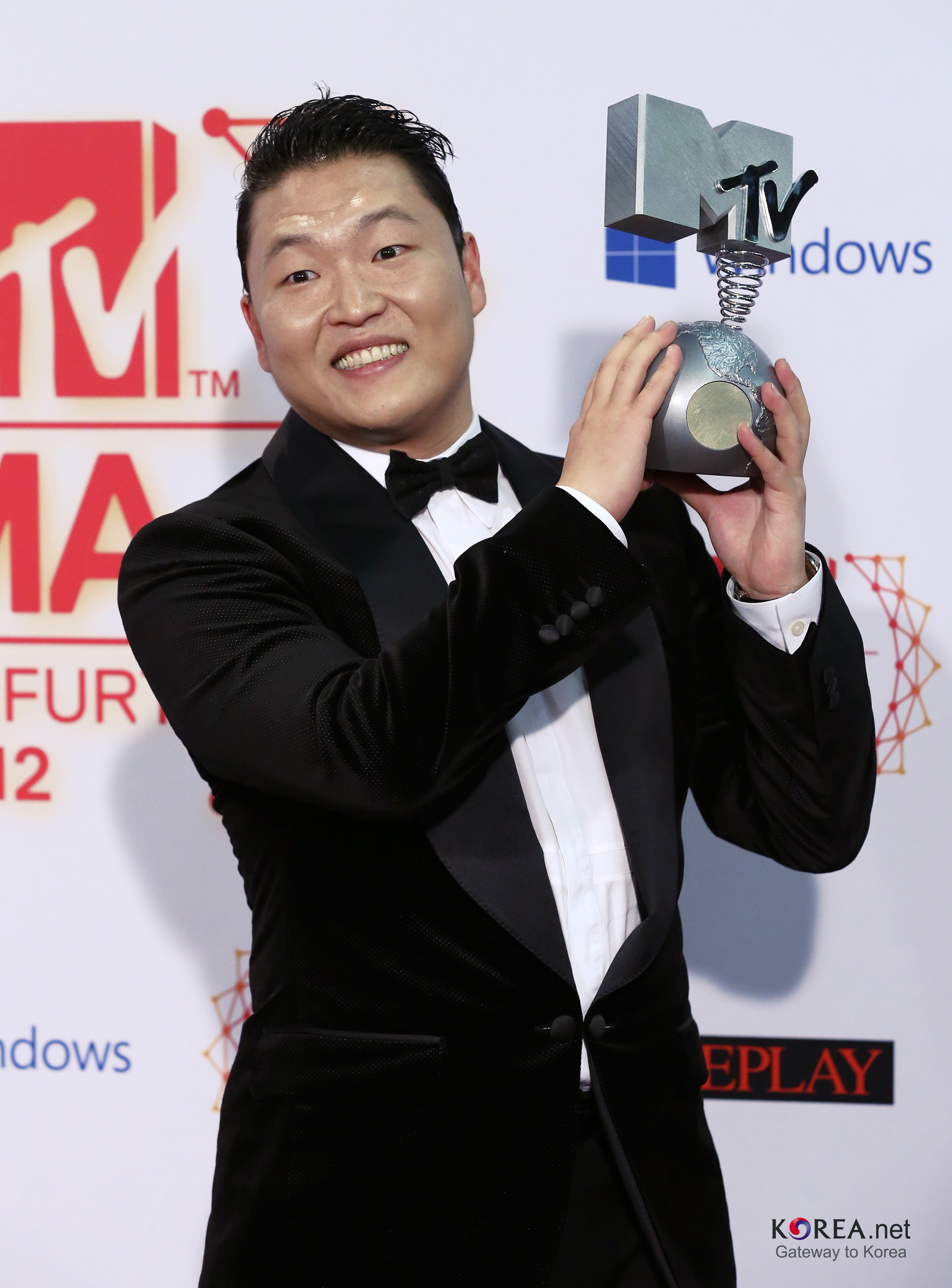 2012 EMTV Award. PSY won 'Best Music Video' Award by 'Gangnam Style'. Frankfurt, Germany